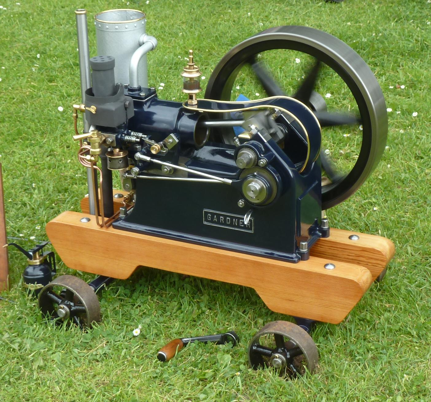 Gardner 0 engine, a small hot-tube gas engine. This example is Nº12193 of 1904, built by Gardner in Manchester. Abergavenny steam rally, 2015.